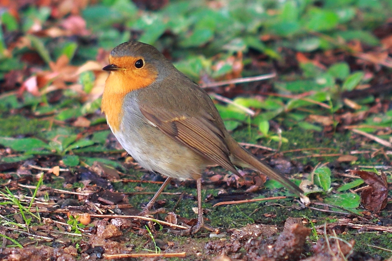 European robin looking out for food on the ground